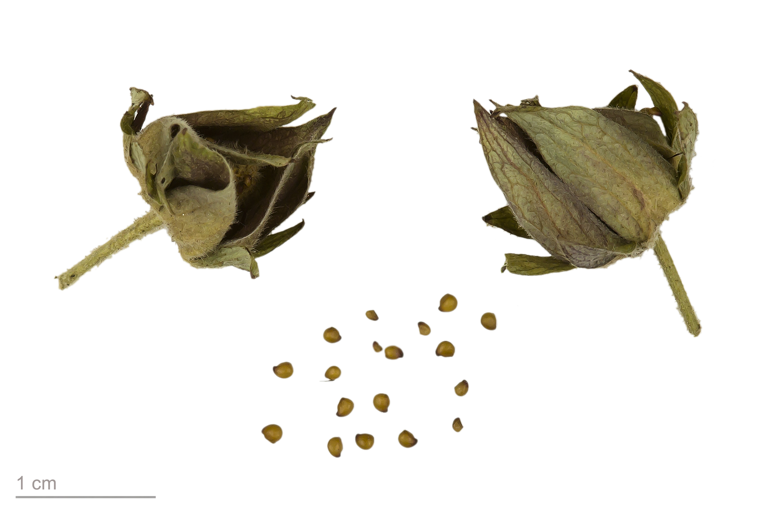 Comarum palustre, purple marshlocks, seeds